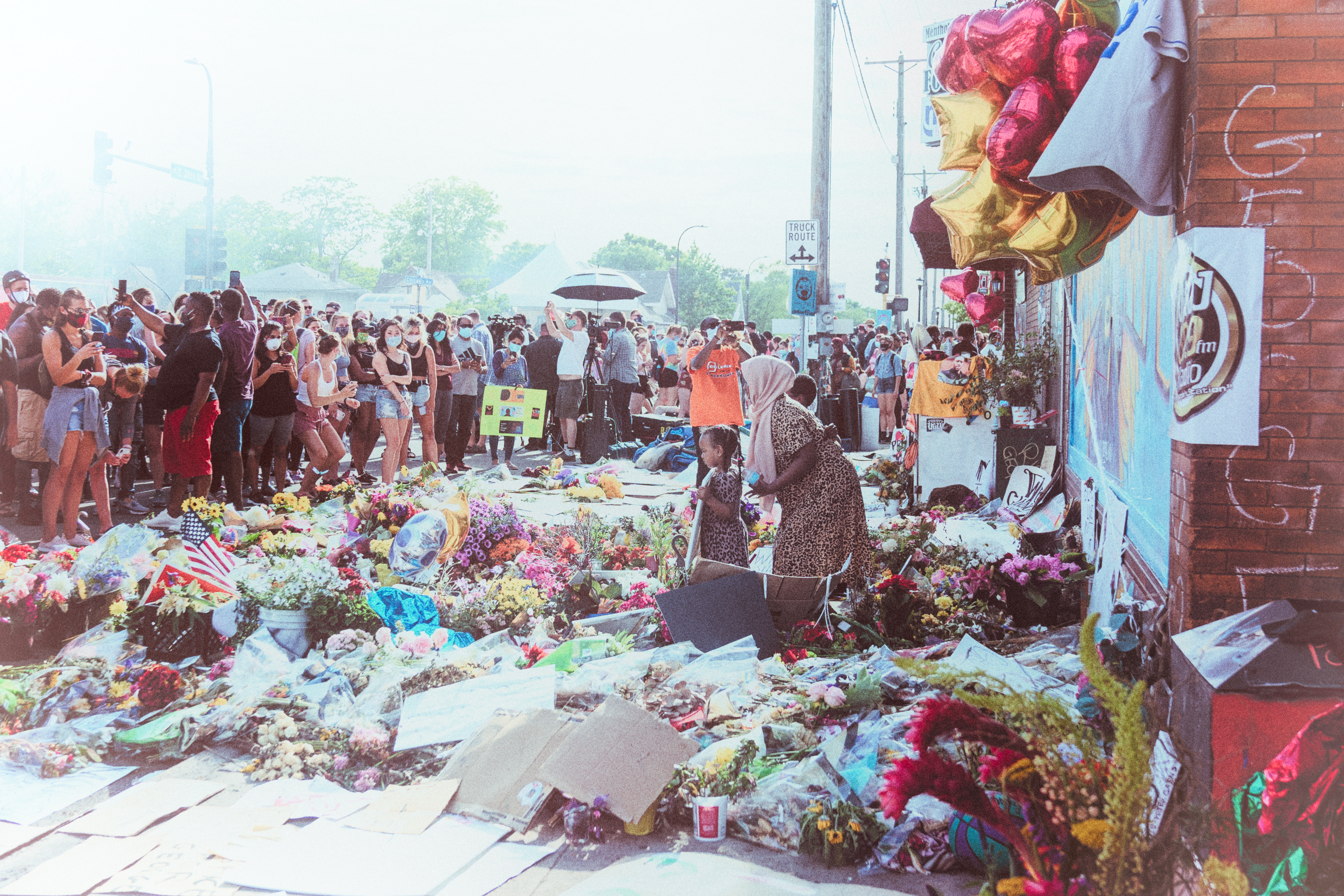 The mural, located on the corner of 38th Street and Chicago Avenue South in Minneapolis, is the work of artists Xena Goldman, Cadex Herrera, and Greta McLain. The group started working on the mural on Thursday morning and finished it within 12 hours with the help of artists Niko Alexander and Pablo Hernandez.